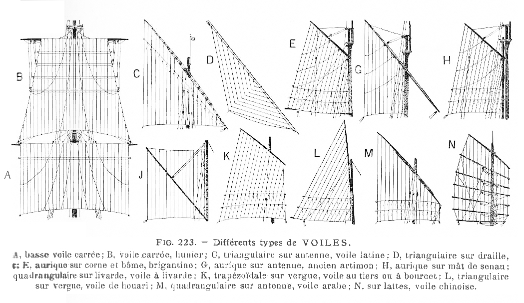 a, basse voile carree; b, voile carree, hunier; c, triangulaire sur antenne, voile latine; d, triangulaire sur draille, foc; e, aurique sur corne et bome, brigantine; g, aurique sur antenne, ancien artimon; h, aurique sur mat de senan; j, quadrangulaire sur livarde, voile a livarde, k, trapezoidale sur vergue, voile au tiers ou a bourcet; l, triangulaire sur vergue, voile de houari; m, quadrangulaire sur antenne, voile arabe, n, sur lattes, voile chinoise Subject: Sails Tag: Vessels